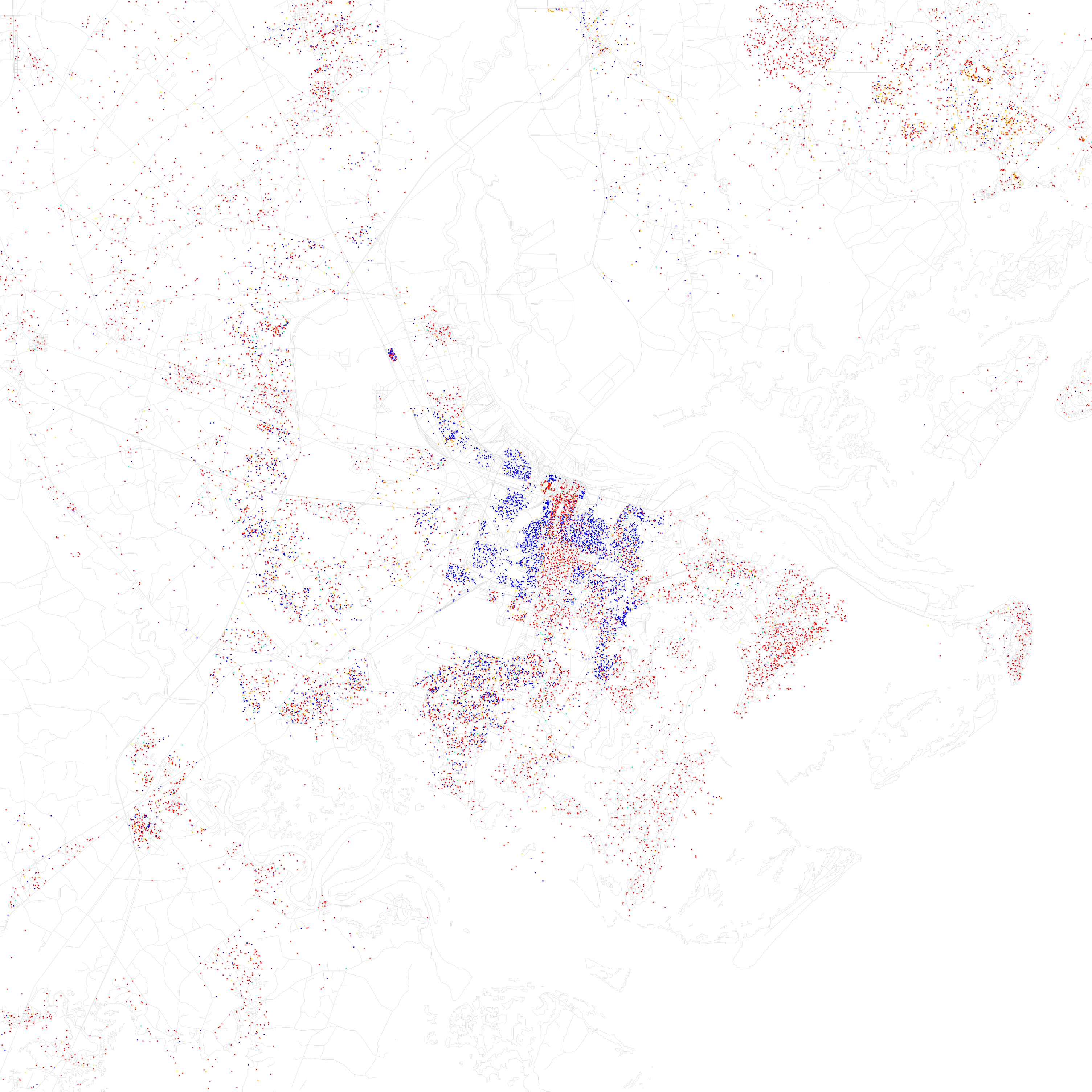 Maps of racial and ethnic divisions in US cities, inspired by Bill Rankin's map of Chicago, updated for Census 2010. Red is White, Blue is Black, Green is Asian, Orange is Hispanic, Yellow is Other, and each dot is 25 residents. Data from Census 2010. Base map © OpenStreetMap, CC-BY-SA